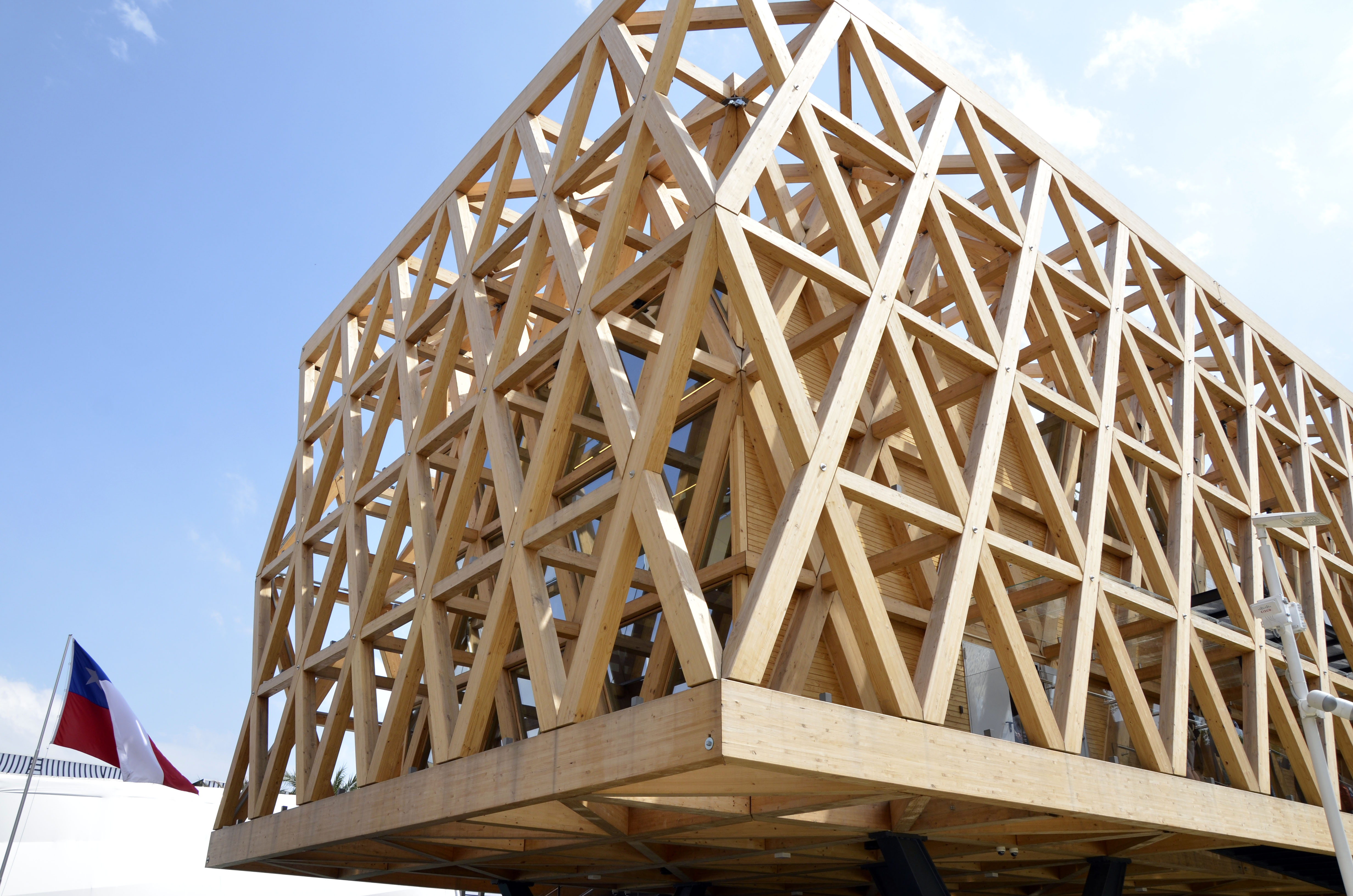 Chile Pavilion at Expo Milano 2015